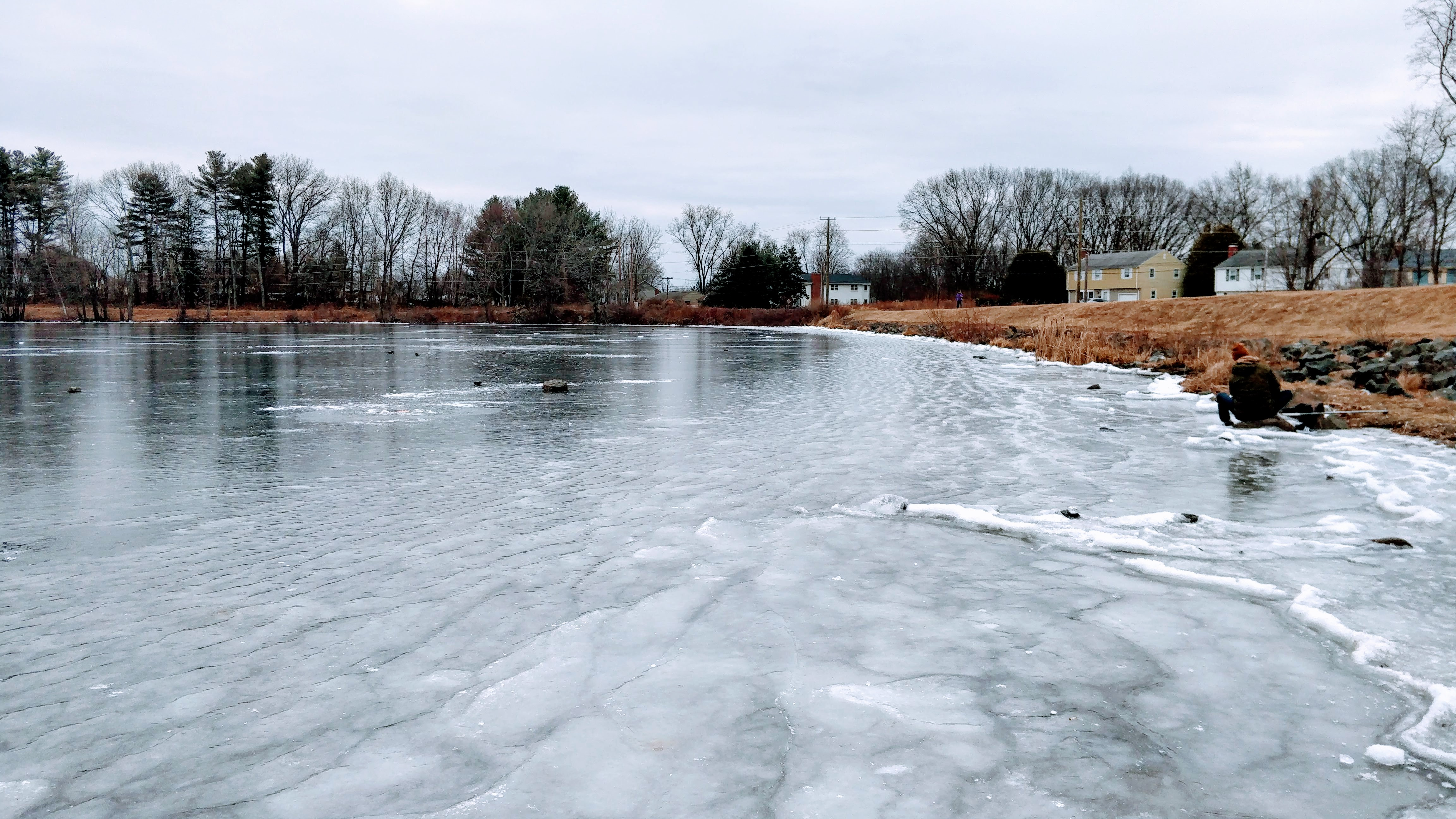 Batterson Park Lake during winter Storm Jan 2019